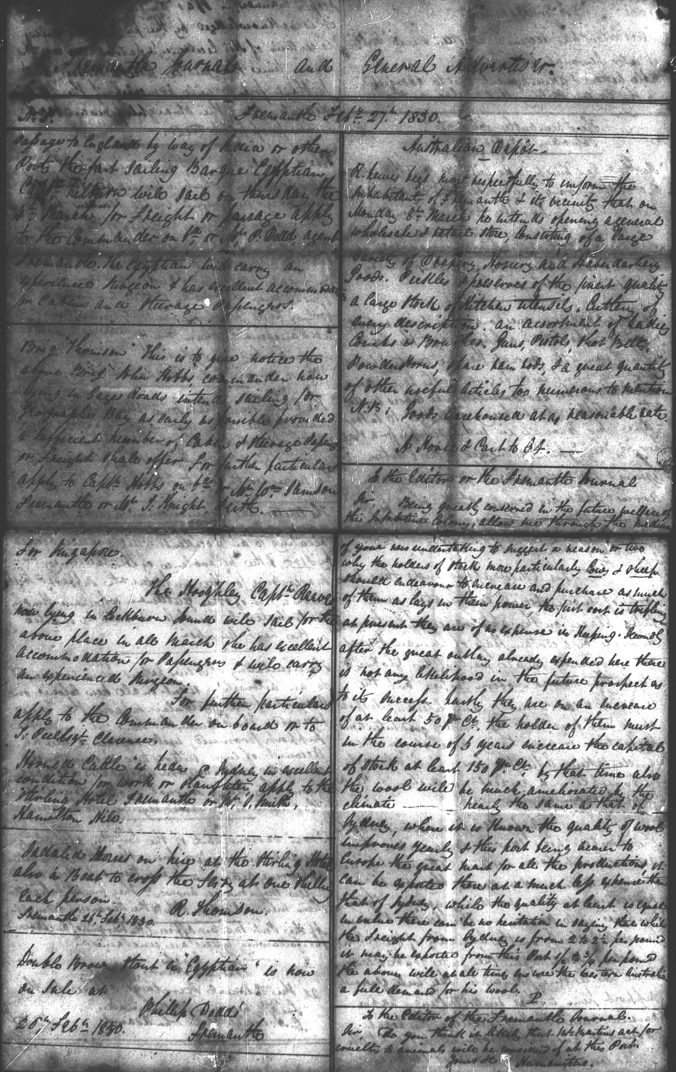 This is a scan of a microfilm of the first page of the first, and only known extant, issue of the first newspaper ever published in Western Australia, the Fremantle Journal and General Advertiser. The original is in very poor condition, and this is probably about as good a scan as one could expect.